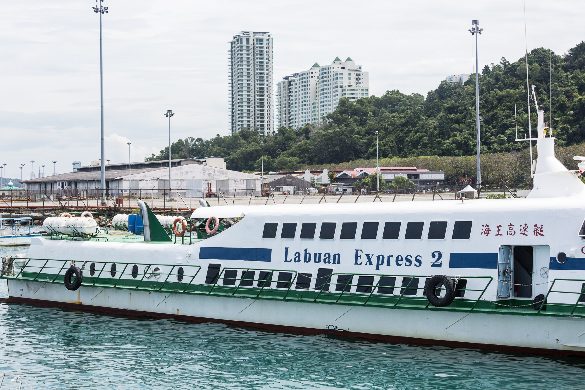 Kota Kinabalu, Sabah: Labuan ferry, anchoring at Jesselton Point.